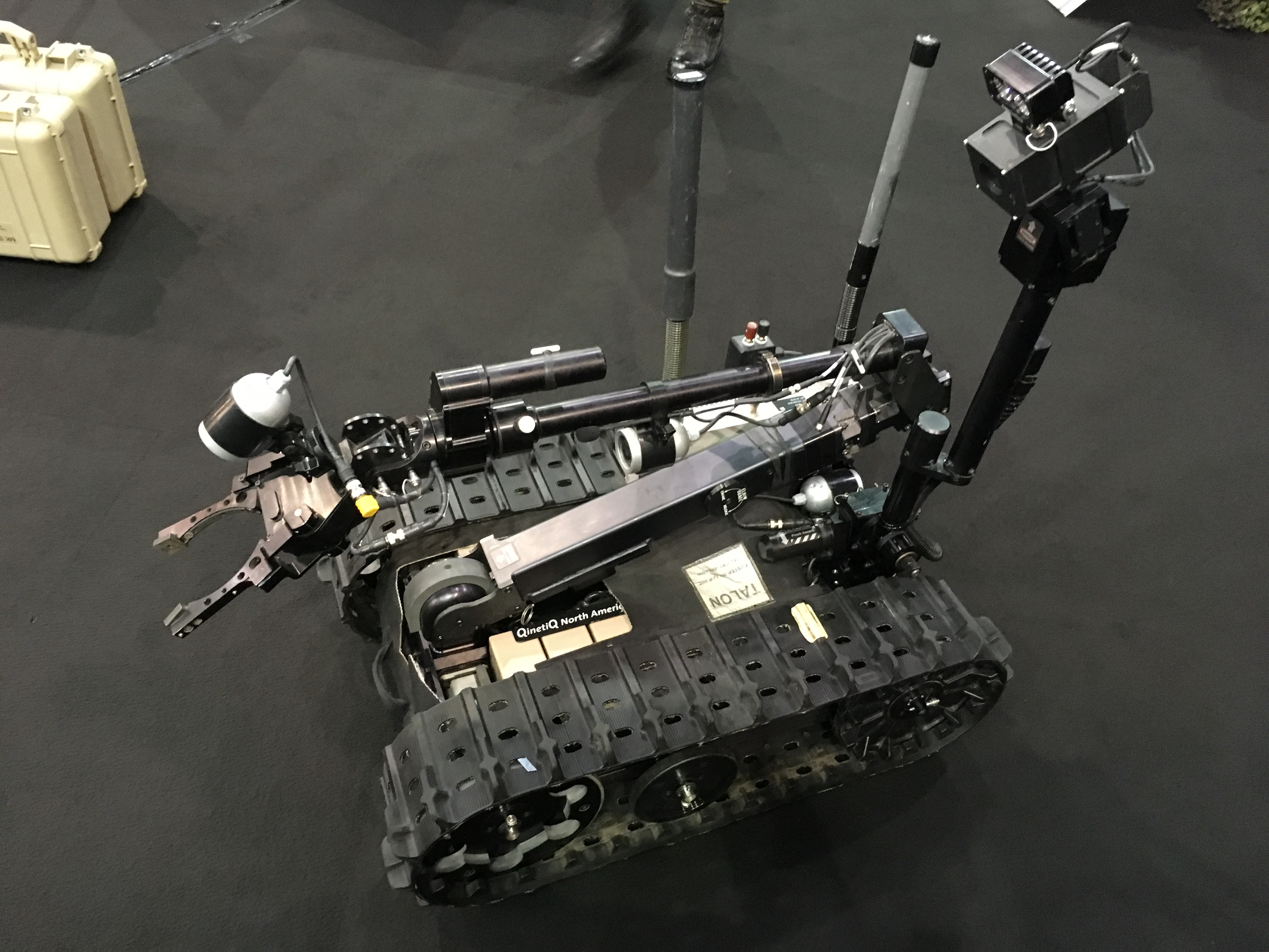 UGV TALON Gen. IV. Future Forces Forum 2018.